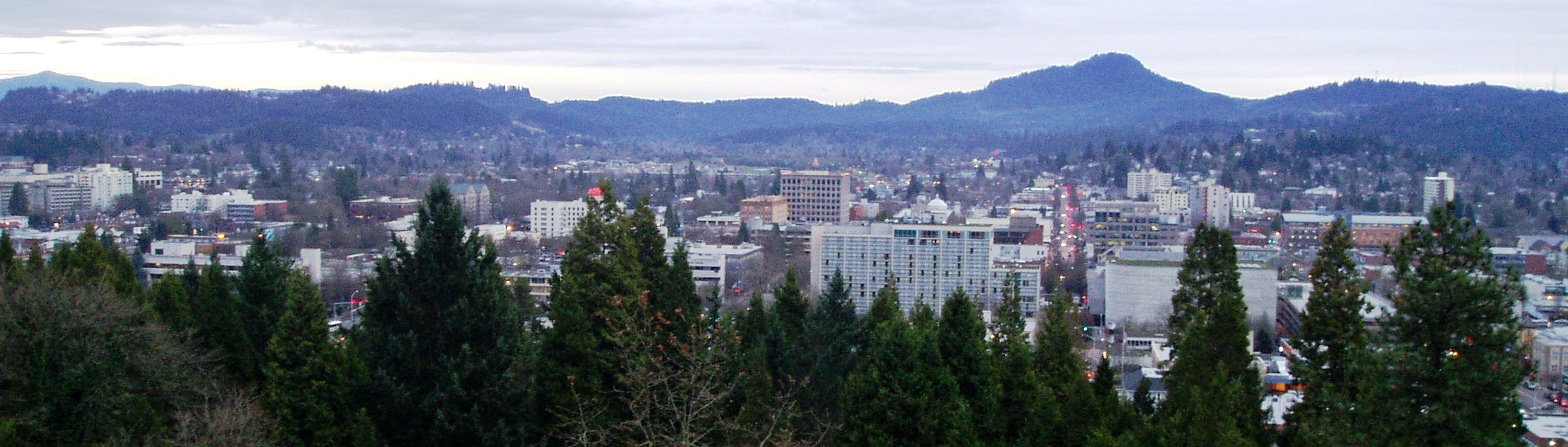 Downtown Eugene's skyline and Spencer Butte as seen from Skinner Butte in North Eugene